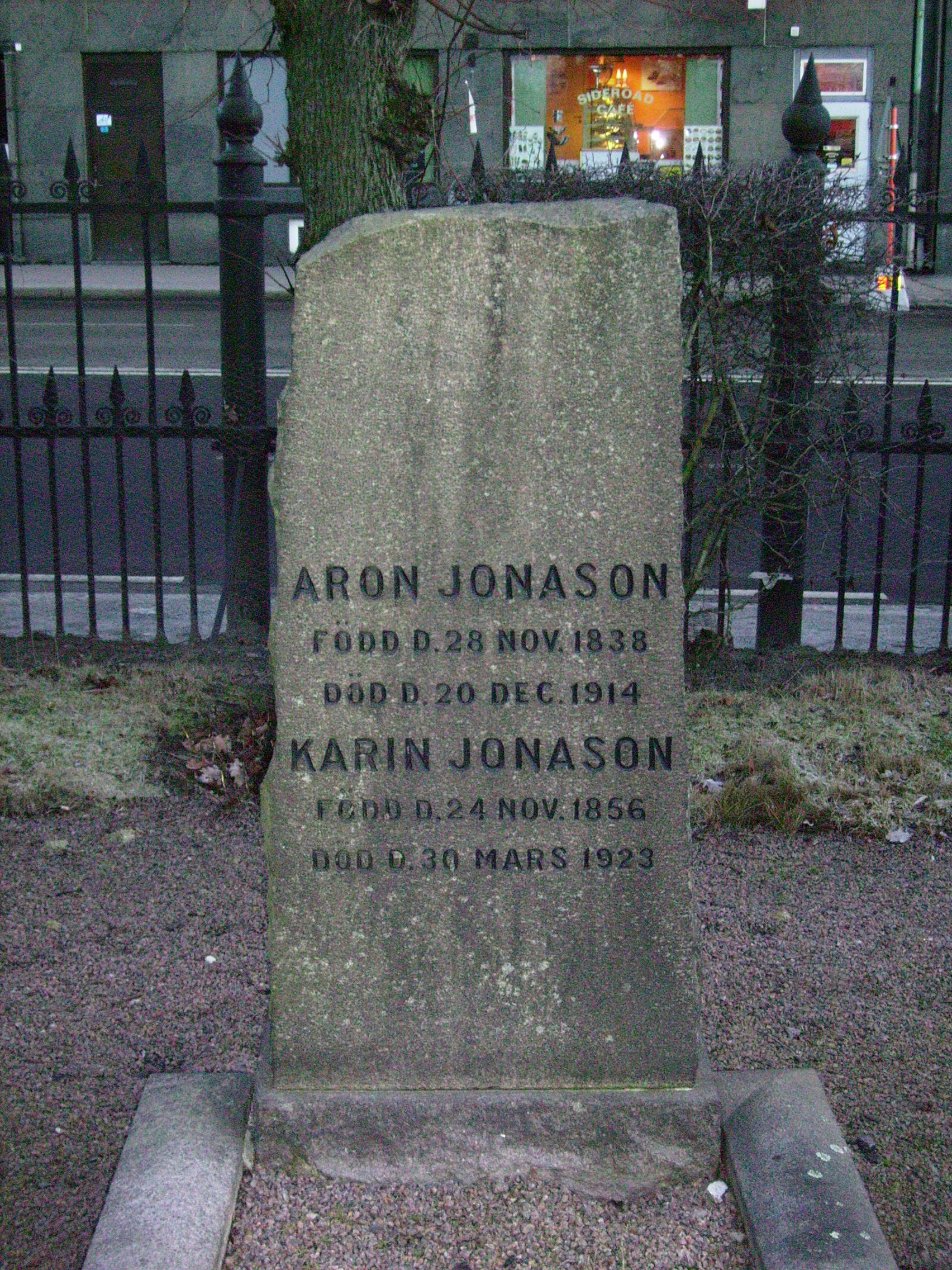 Picture of Aron Jonasson's grave i Gothenburg.